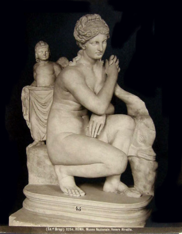 Carlo Brogi (1850-1925) - "Rome - National Museum - Venus Aphrodite". Catalogue # 8254.